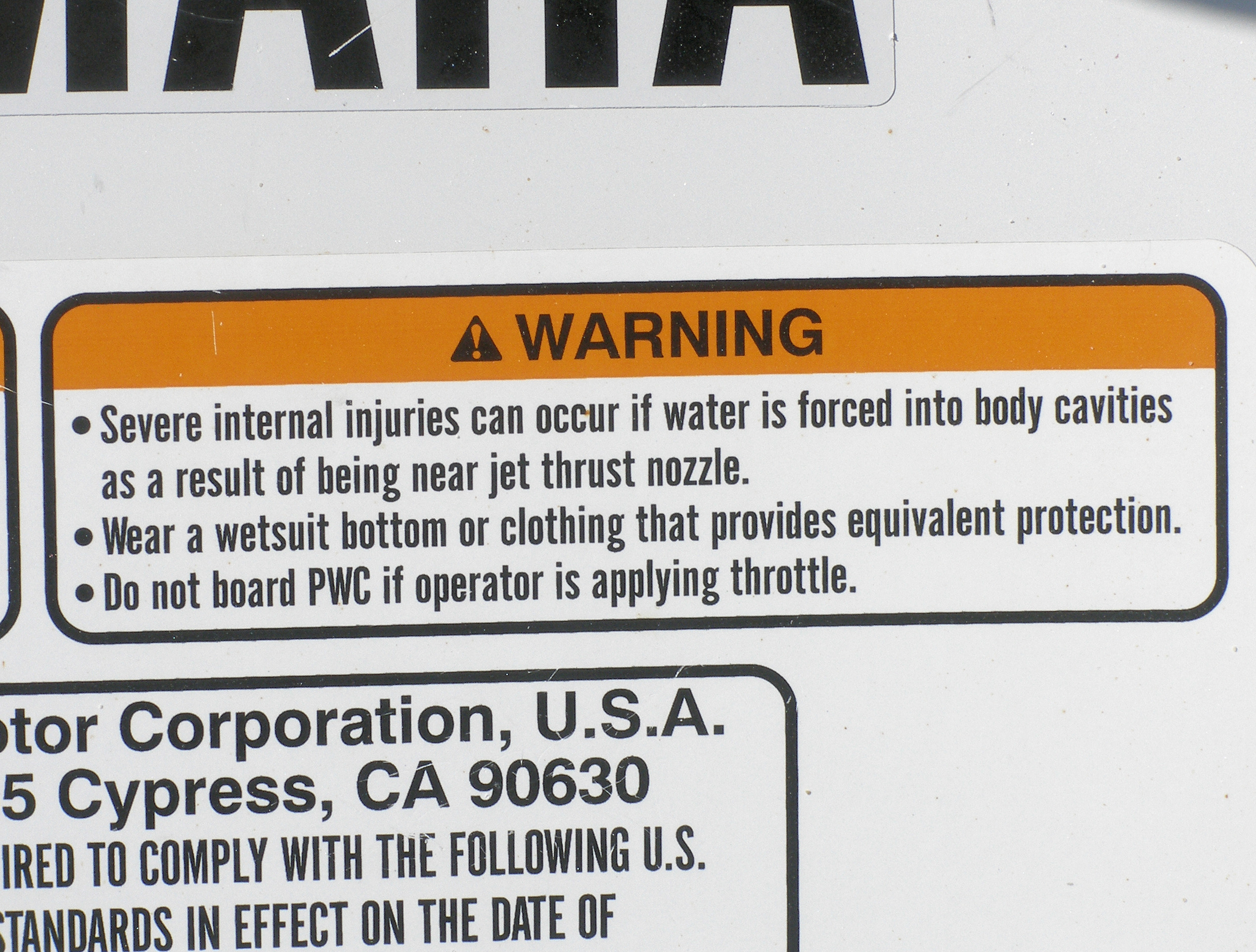 A warning label on a Yamaha personal water craft expressly indicating the risk of water forced into body cavities if one gets too close to the PWC's jet thrust nozzle. Photographed on South Beach in Miami Beach.